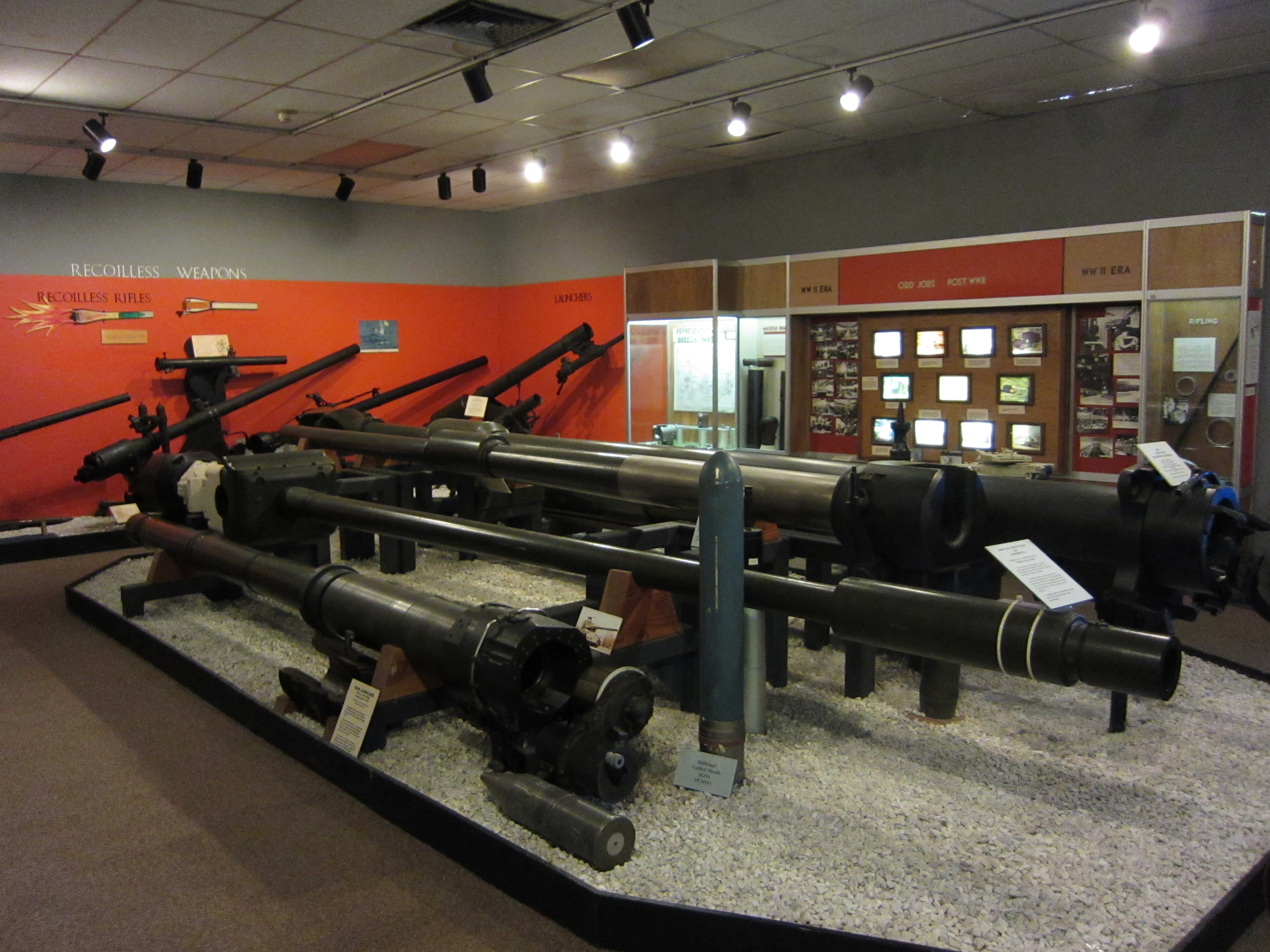 Watervliet Arsenal Museum located inside the historic Iron Building, Building 38, Watervliet Arsenal, Watervliet, New York.